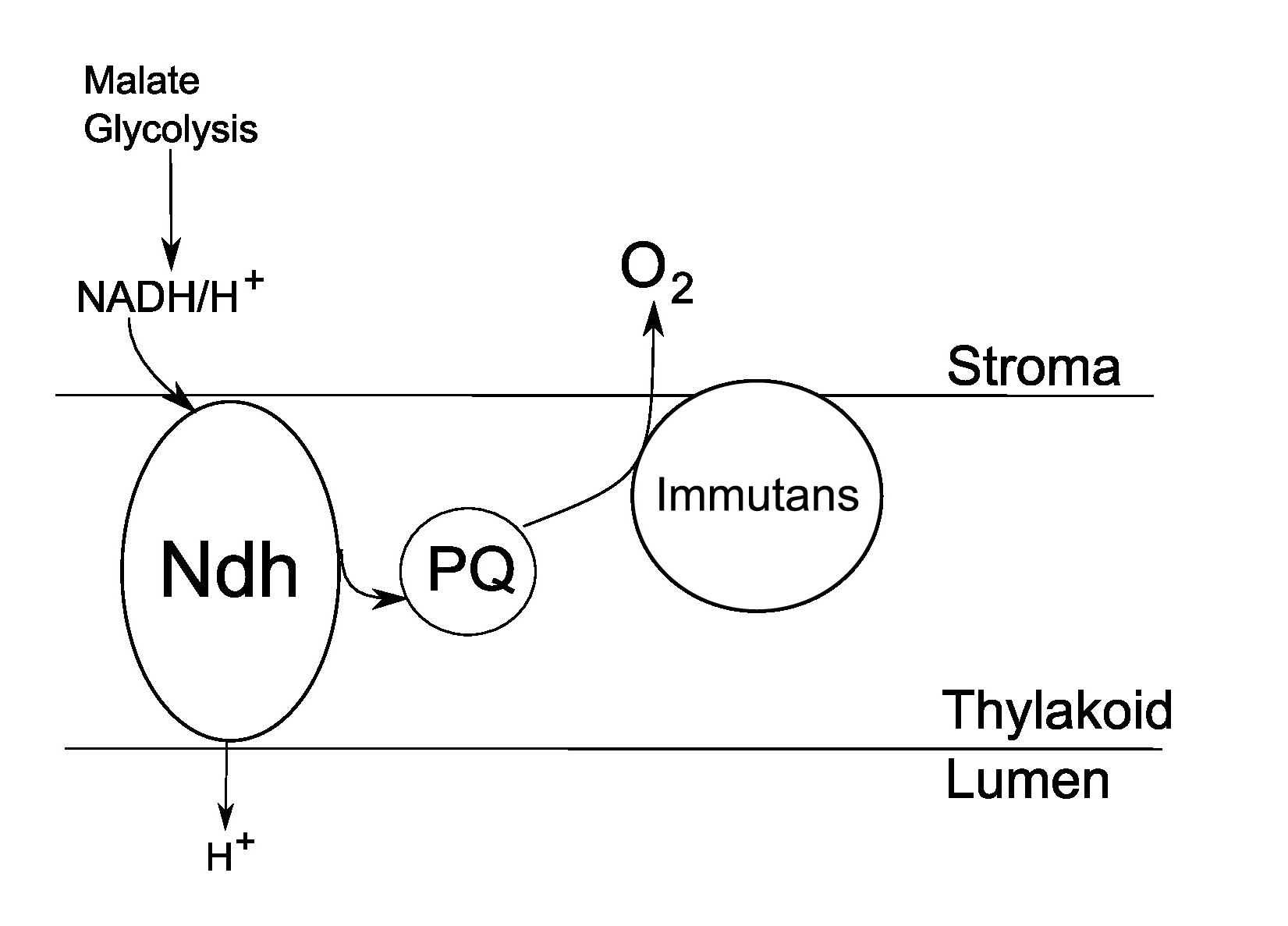 Basic diagram of chlororespiration in plant chloroplasts at night